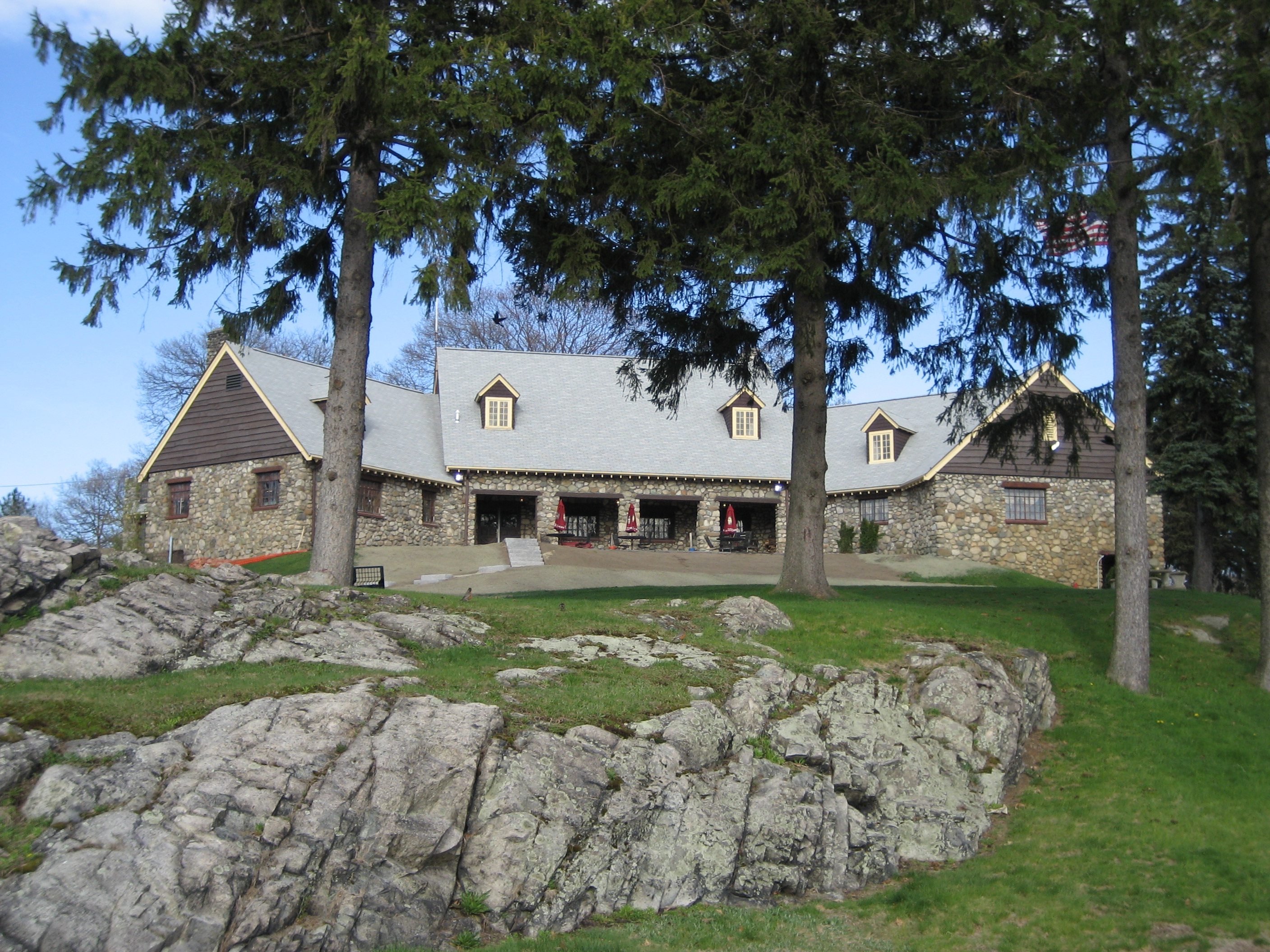 Club House at Mt Hood, built as a ski lodge.